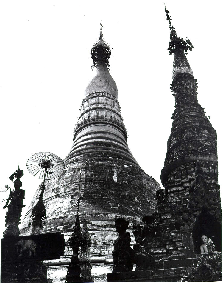 Swe-da-gon Pagoda complex: These are all scenes in the Swe-da-gon Pagoda complex. Most of the shots are around the base of the huge structure.